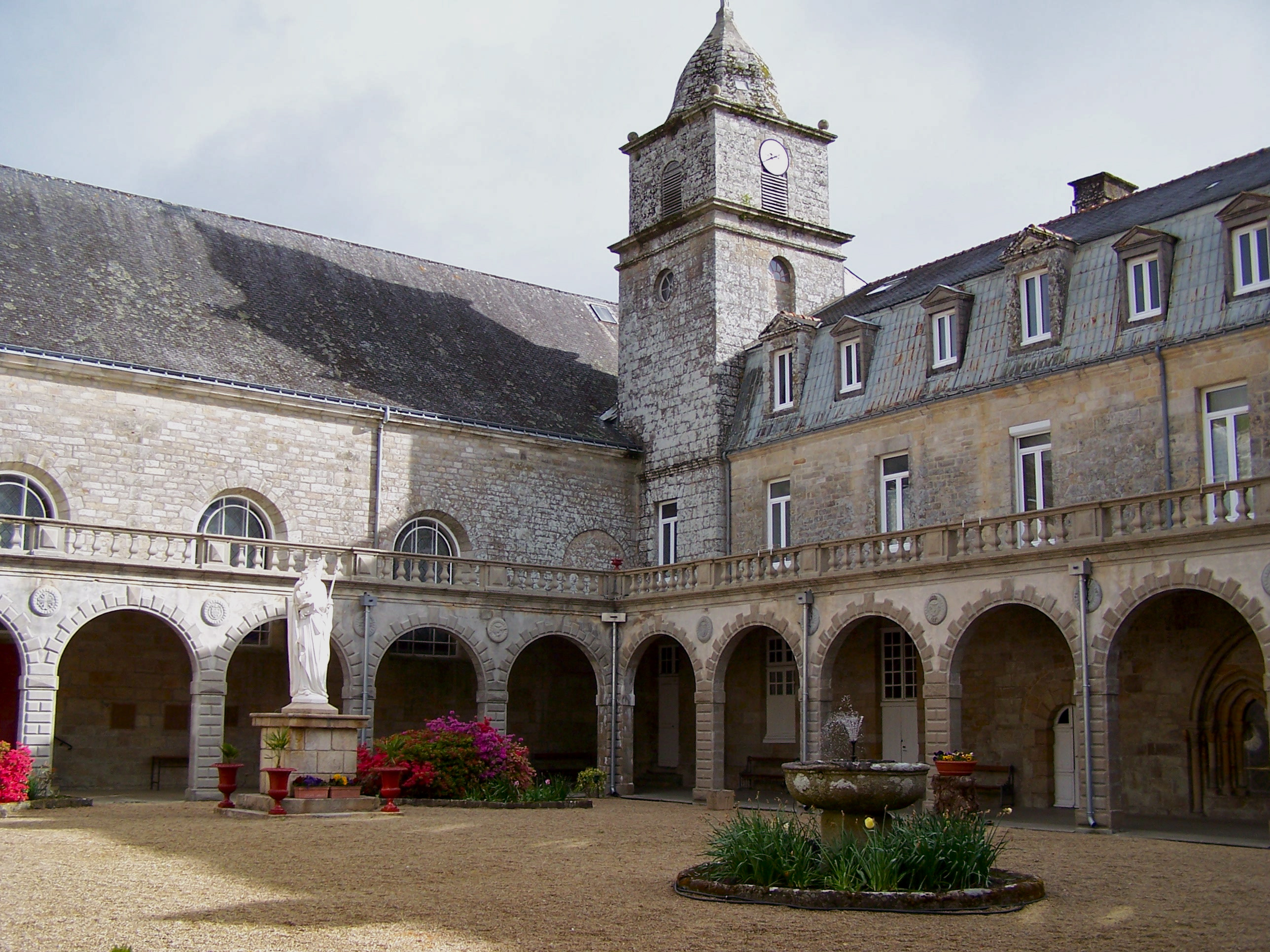 Cloître de l'abbaye de Langonnet, Morbihan